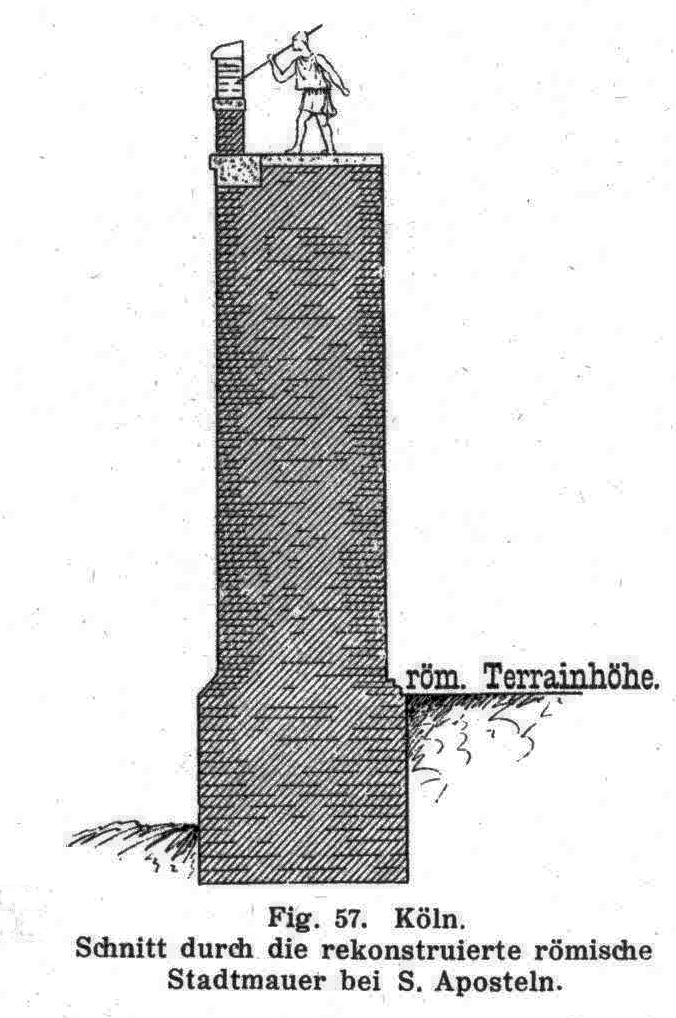 Ancient Roman architecture, Cologne